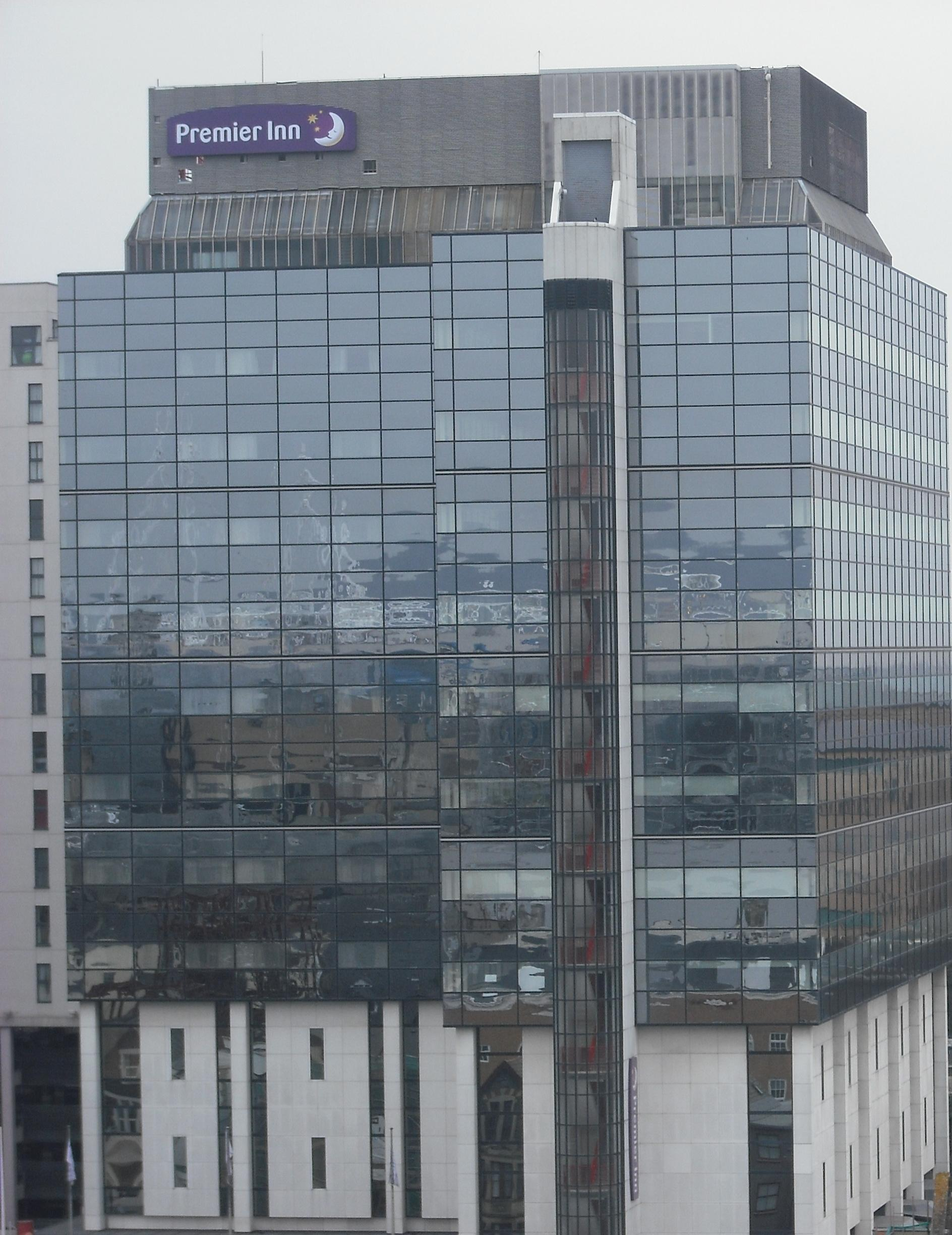 Helmont House, Cardiff, operated by Premier Inn